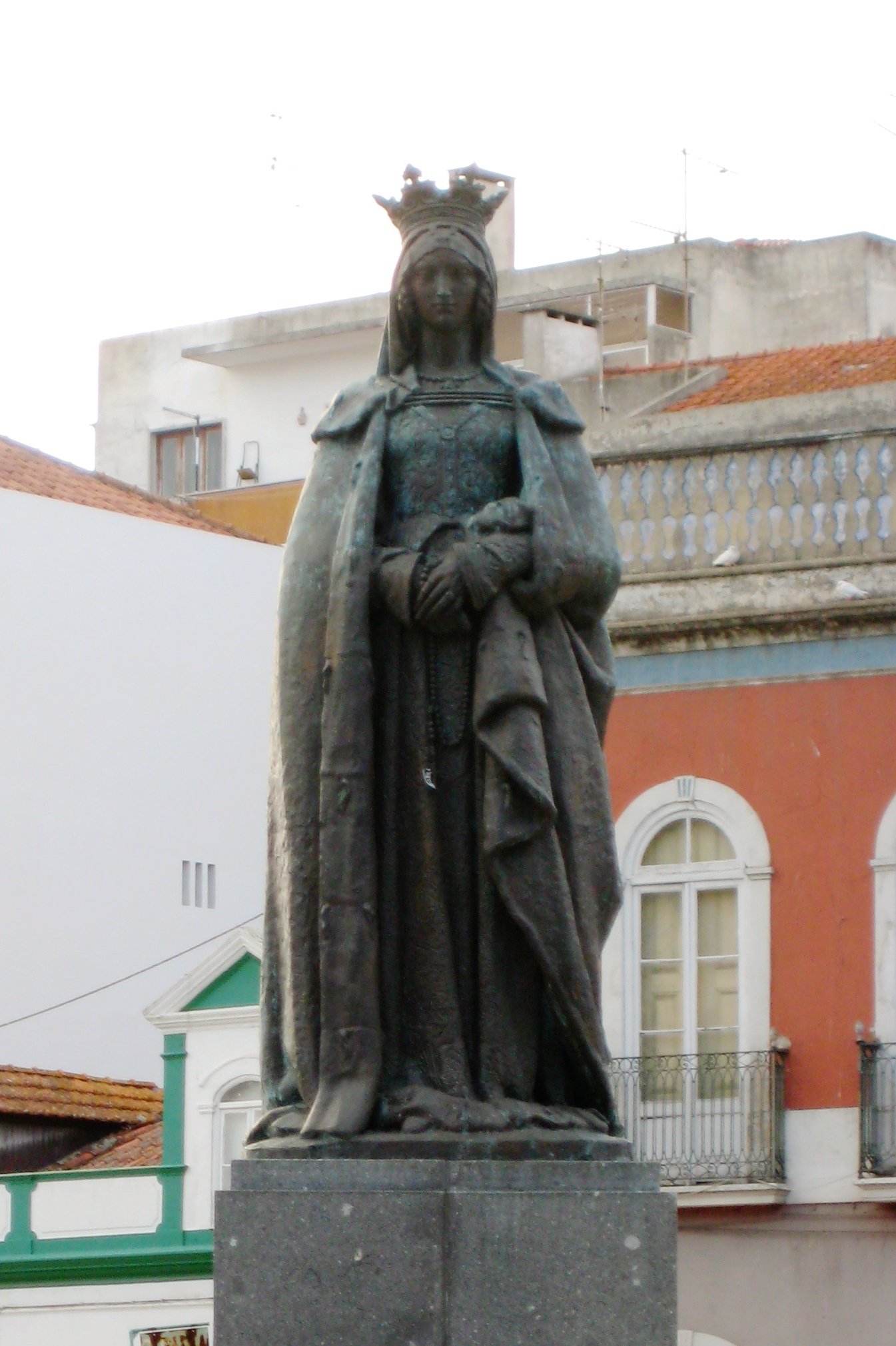 Francisco Franco, Statue of Queen Leonor (Rainha Dona Leonor) in the center of a roundabout in Caldas da Rainha